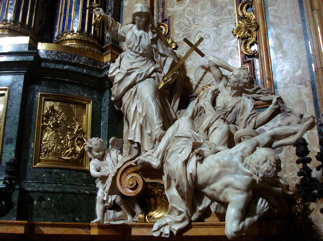 Religion overthrowing Heresy and Hatred by Pierre Le Gros the Younger